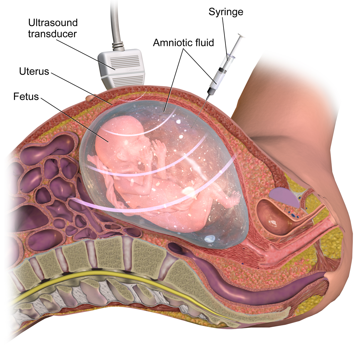 Amniocentesis. See a full animation of this medical topic.